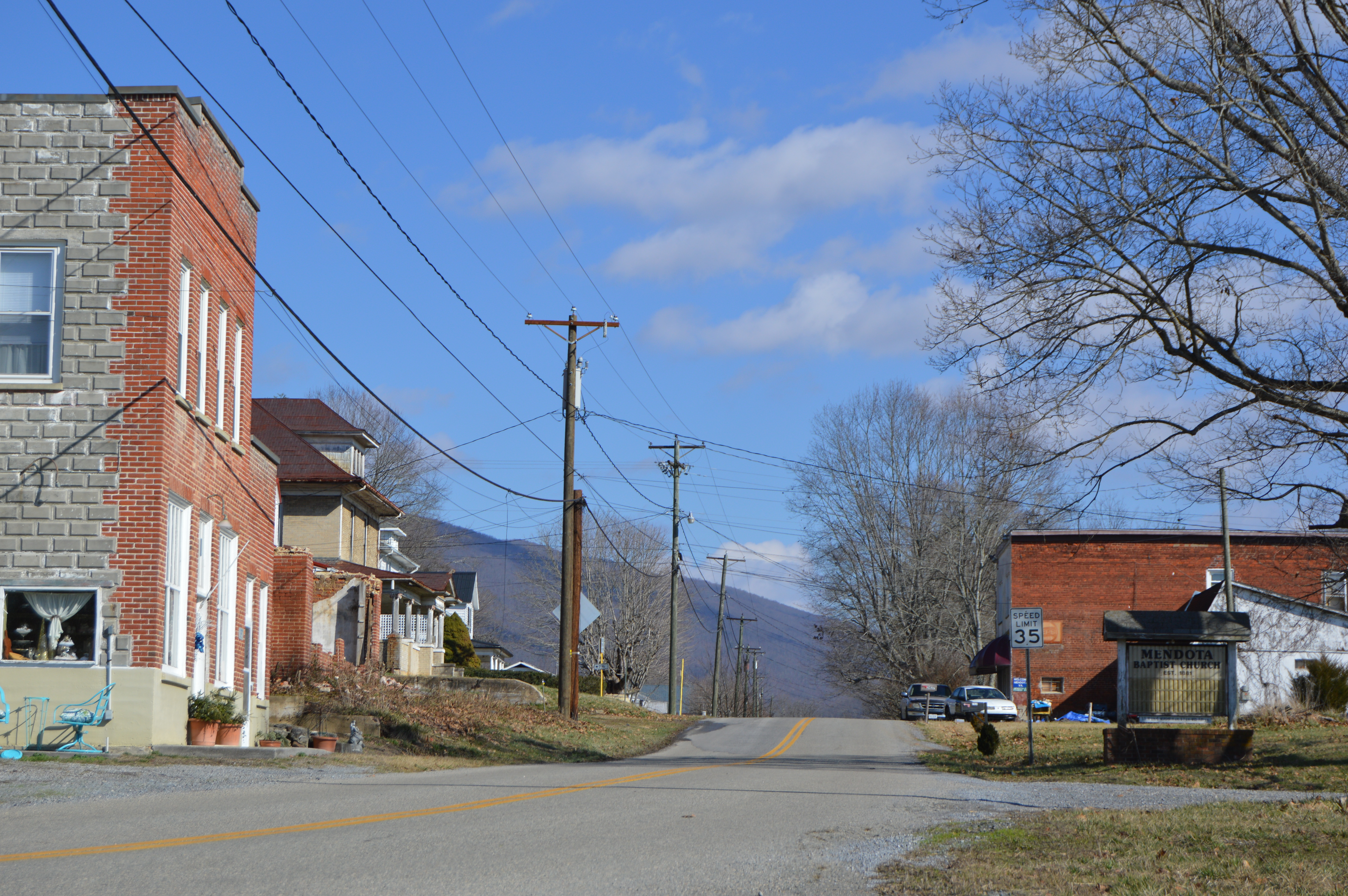 Buildings on Mendota Road just east of Civil Drive at Mendota, in extreme western Washington County, Virginia, United States.